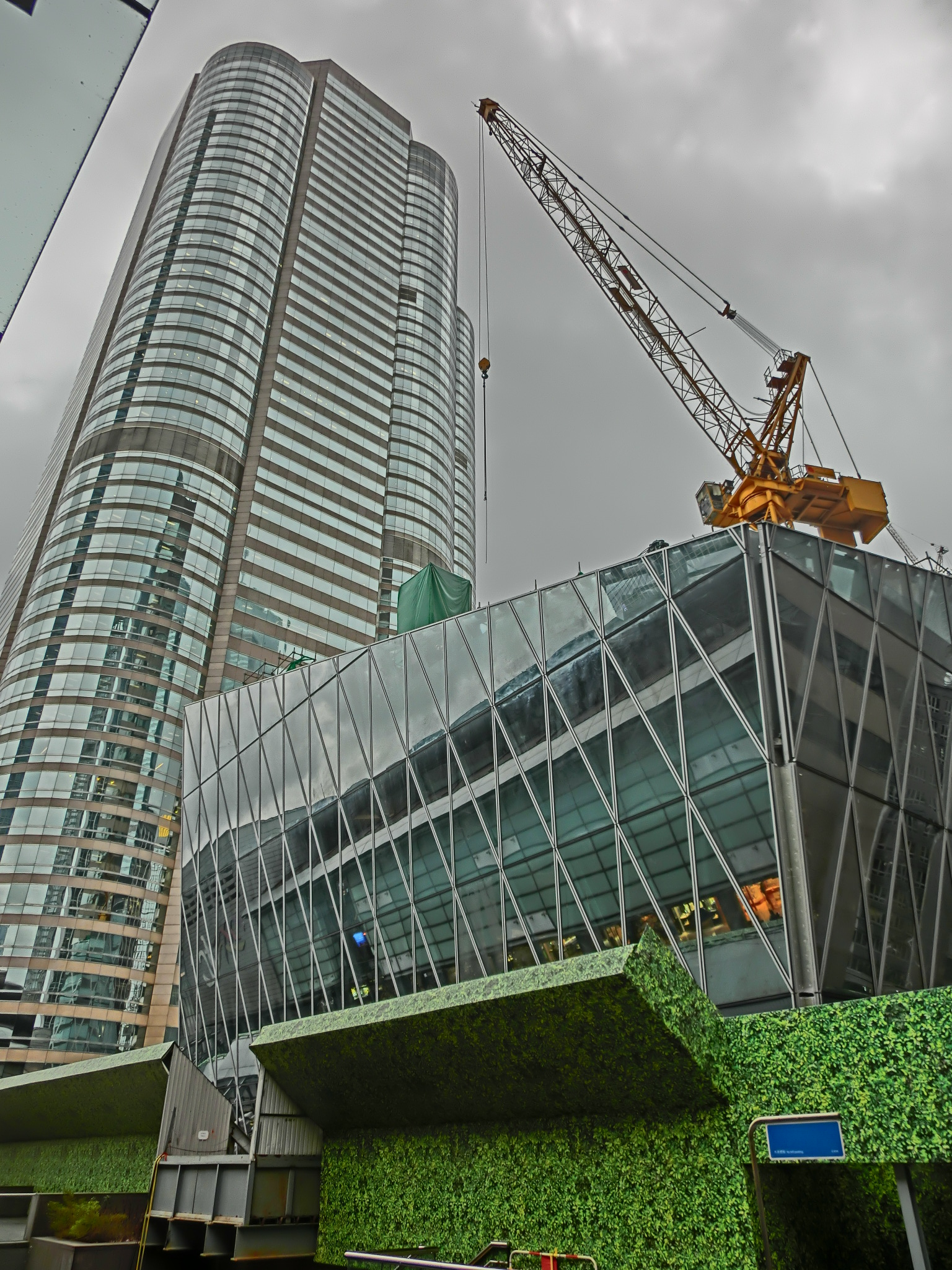 Central, Hong Kong